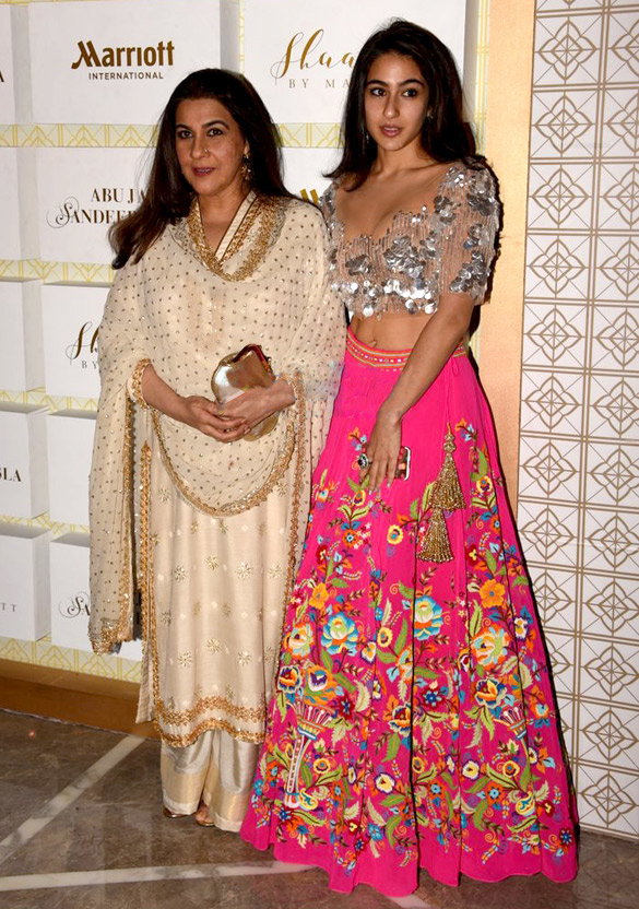 Amrita Singh & Sara Ali Khan at Shaadi By Marriott showcase in 2017.